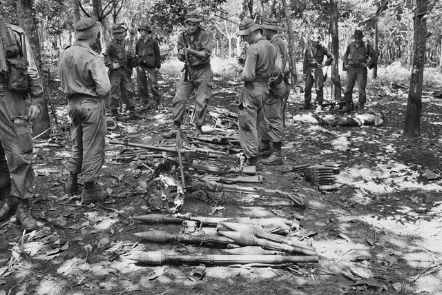 AWM Caption: LONG TAN, VIETNAM. 19 AUGUST 1966. TROOPS IN A CLEARING IN THE RUBBER PLANTATION EXAMINE SOME OF THE VIET CONG WEAPONS CAPTURED BY D COMPANY, 6TH BATTALION, THE ROYAL AUSTRALIAN REGIMENT (6RAR), AFTER THE LONG TAN BATTLE. THE WEAPONS INCLUDED ROCKET LAUNCHERS, HEAVY MACHINE GUNS, RECOILLESS RIFLES, AND SCORES OF RIFLES AND CARBINES. LEFT TO RIGHT: 2781706 PRIVATE (PTE) A. L. PARR (WITH BACK TO CAMERA); CORPORAL (CPL) ROSS (BLACKMAC) MCDONALD; PTE (STING) HORNET; PTE PETER DOYLE (WITH WEAPON); PTE (POM) RENCHER; CPL (BLUEY) MOORE.